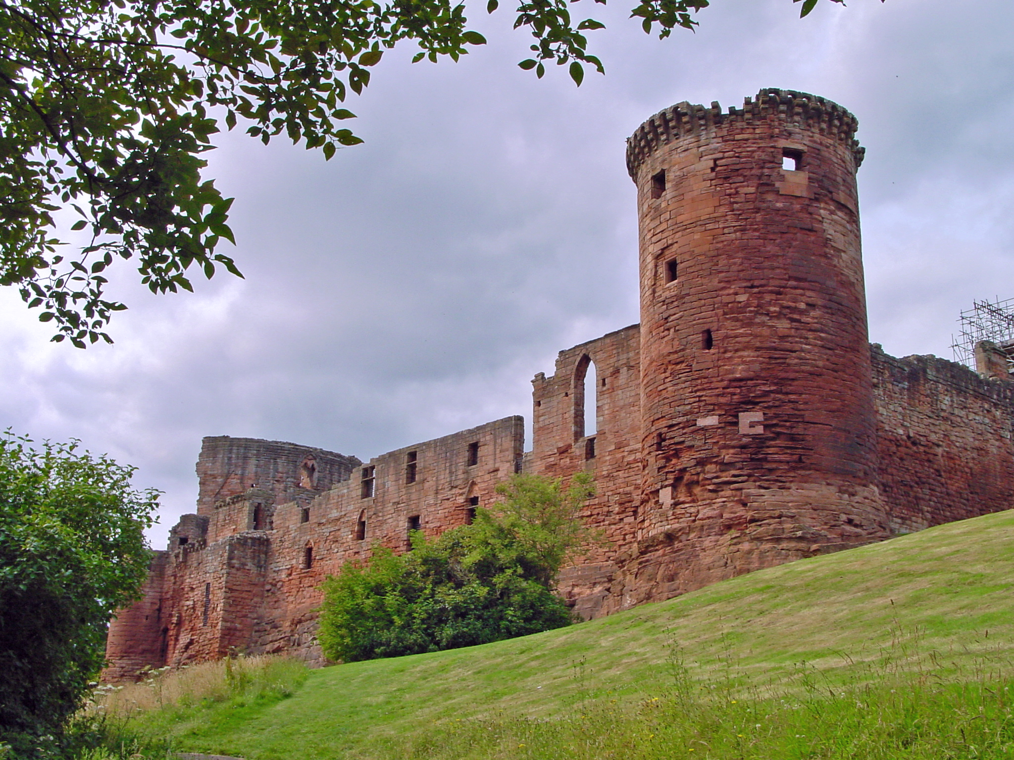 South-eastern tower of Bothwell Castle, South Lanarkshire, Scotland